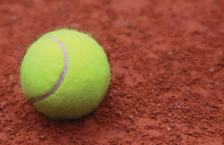 tennis